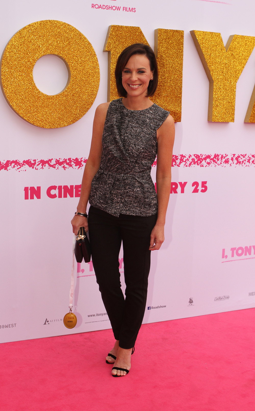 Natarsha Belling